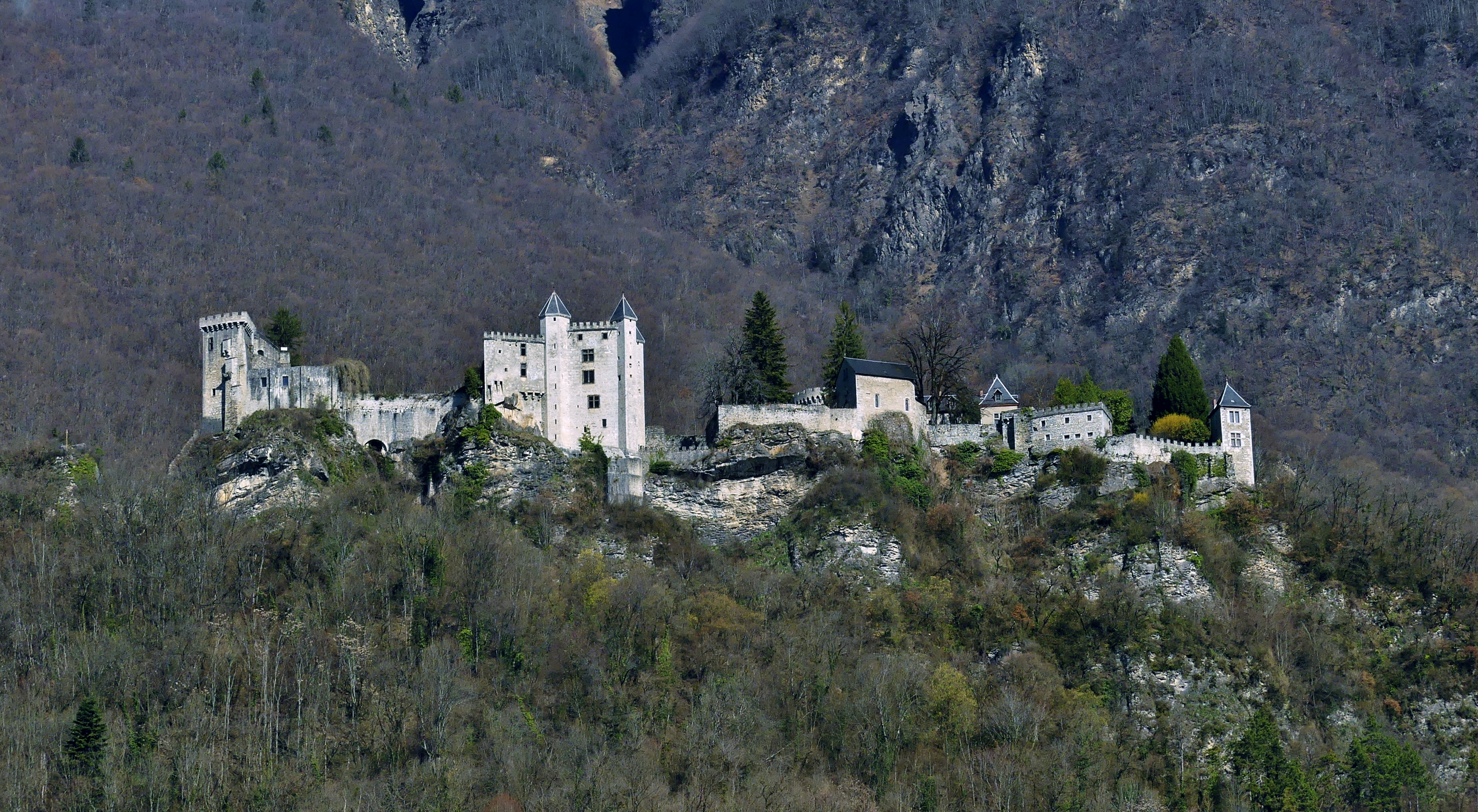 Sight, in winter, of the castle of Miolans, up on the slopes of Arclusaz in the Bauges mountain range, in Savoie, France.